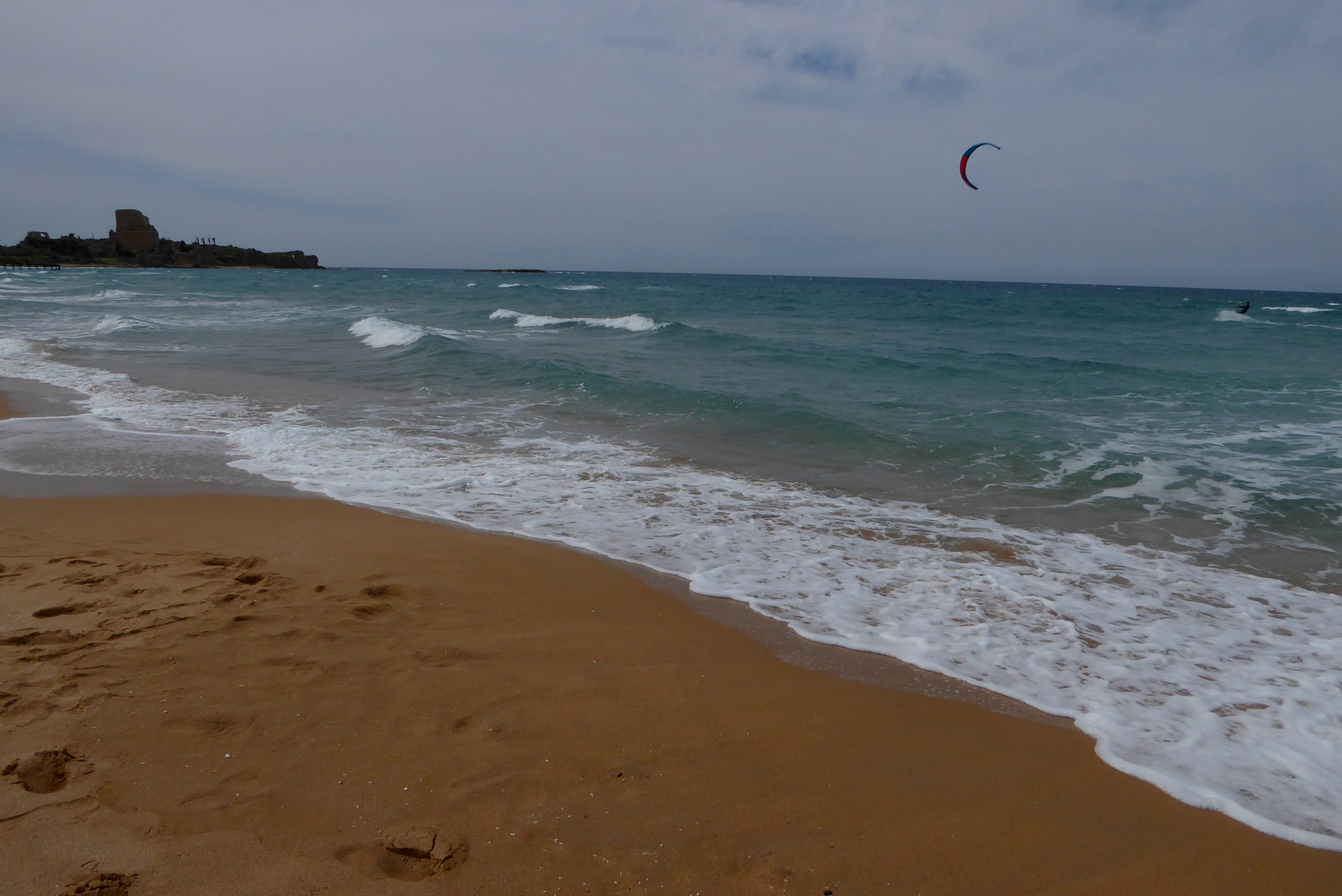 Atlit Fortress